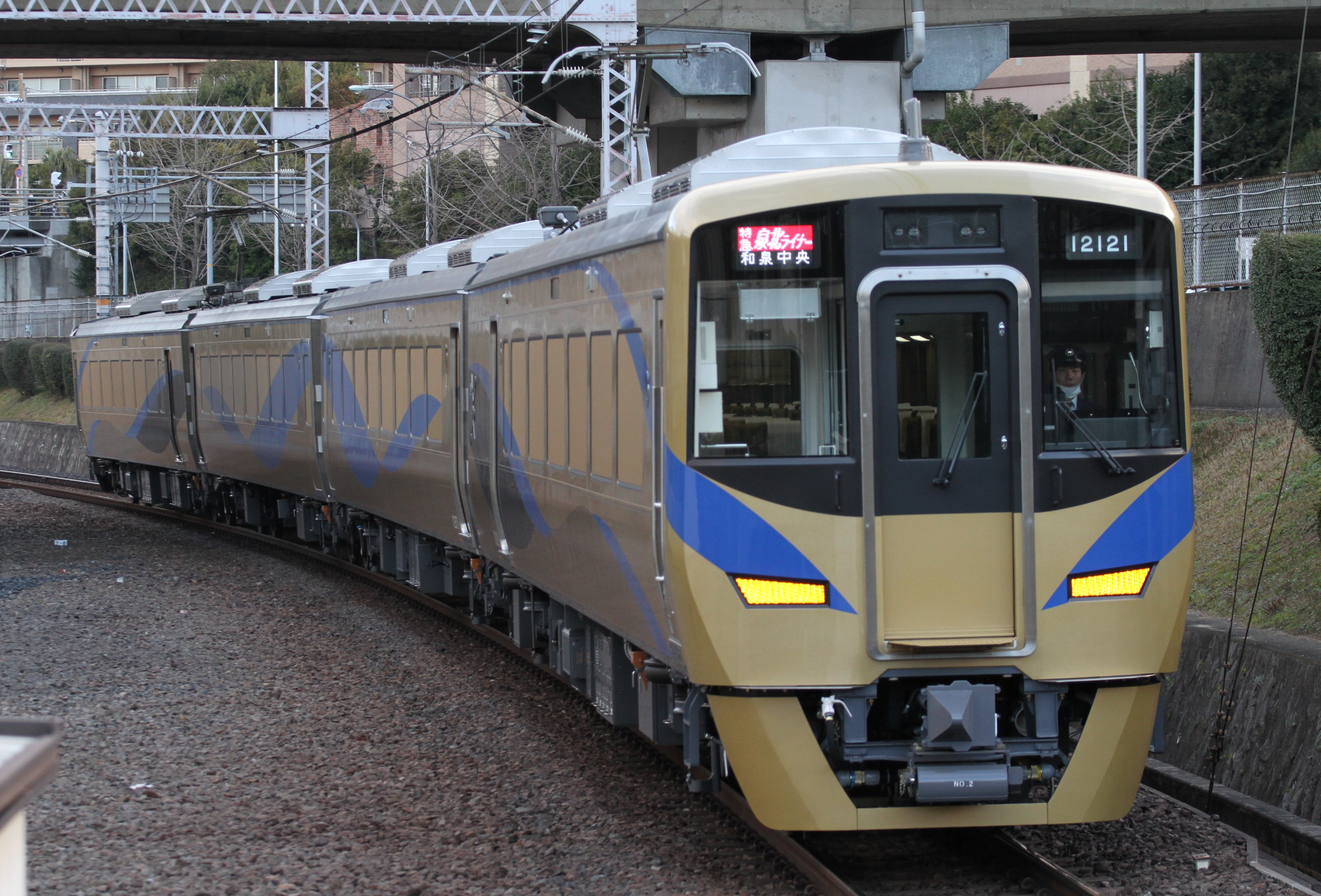 Semboku 12000 series EMU set 12021 leaving Izumigaoka Station on a Semboku Liner service